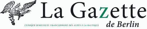 Identité visuelle de la Gazette de Berlin (2006)